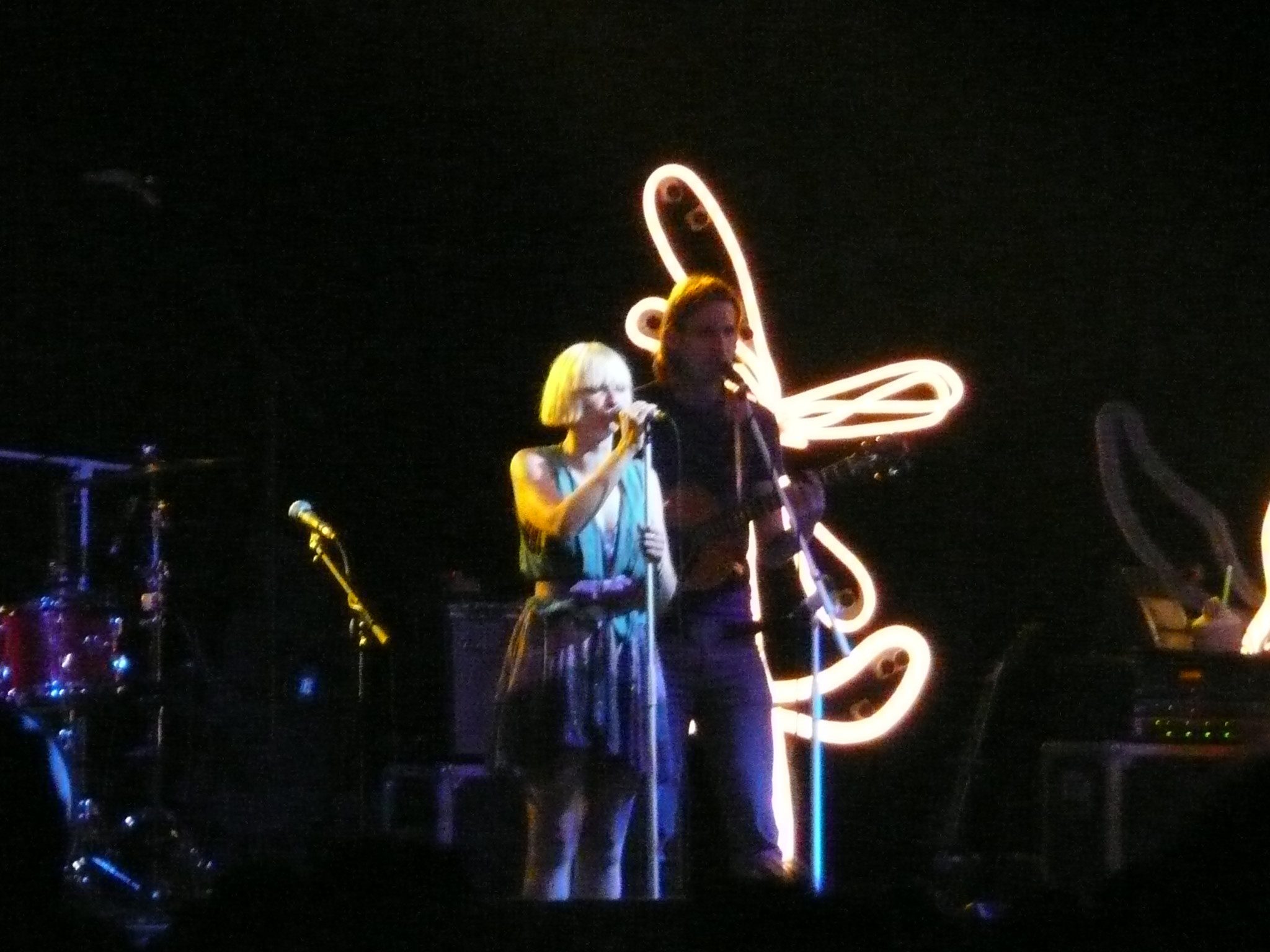 Sia performing in 2008 in support of her album Some People Have Real Problems